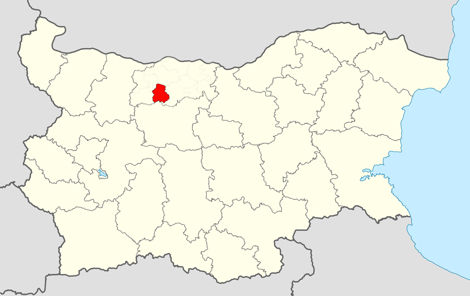 Location map of Dolni Dabnik Municipality within Pleven Province, Bulgaria. Equirectangular projection, N/S stretching 130 %. Geographic limits of the map: N: 44.4° N S: 41.1° N W: 22.1° E E: 28.9° E